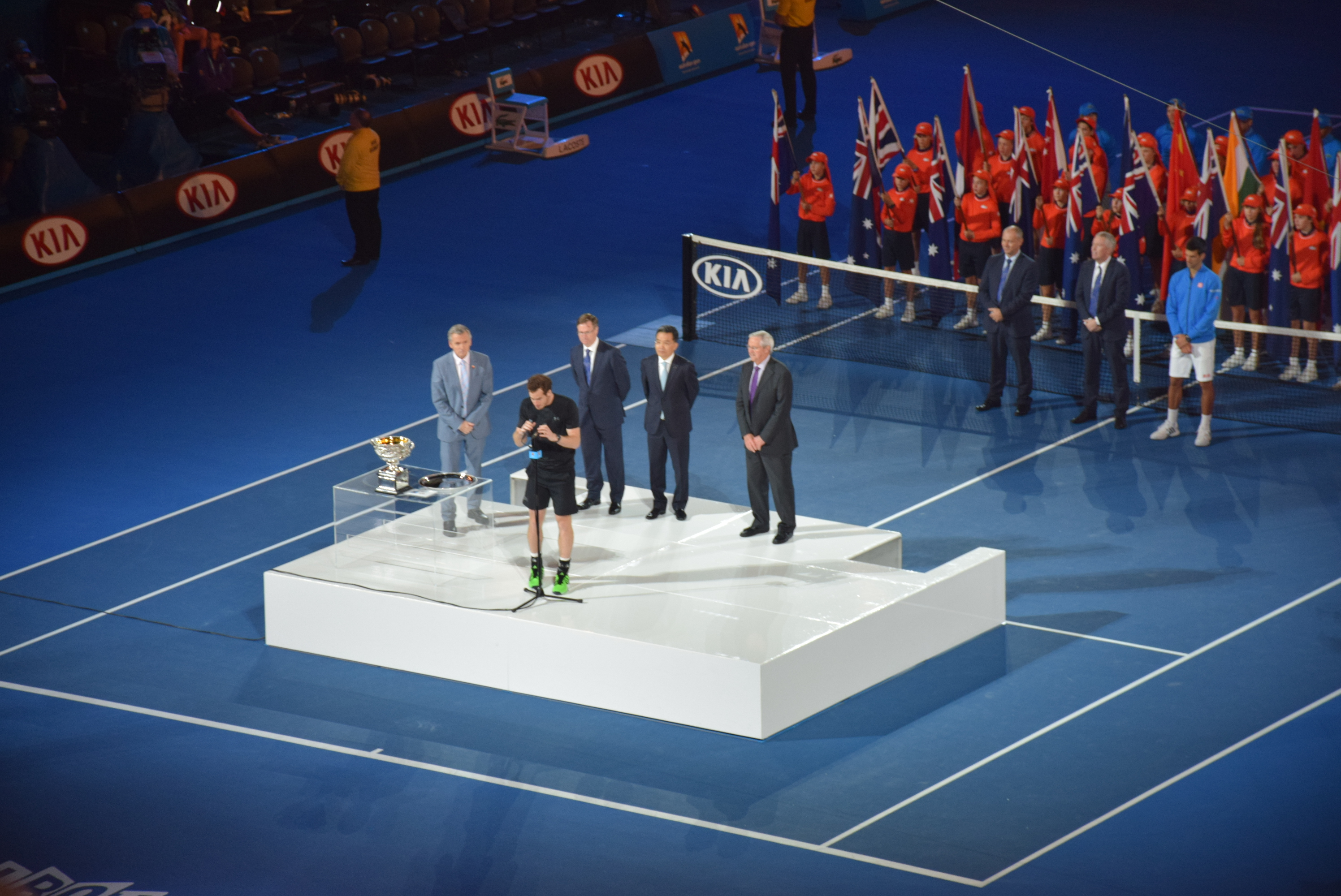 Andy Murray addresses the crowd after his four set loss.